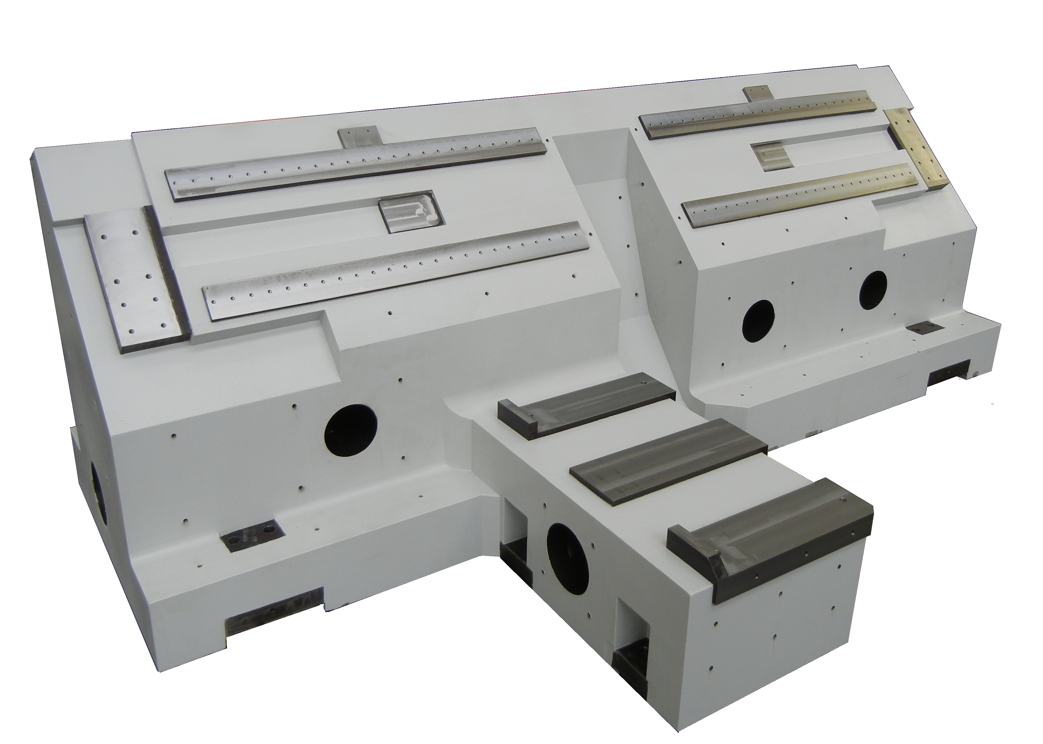 Machine bed made of UHPC with embedded steel rails for precision